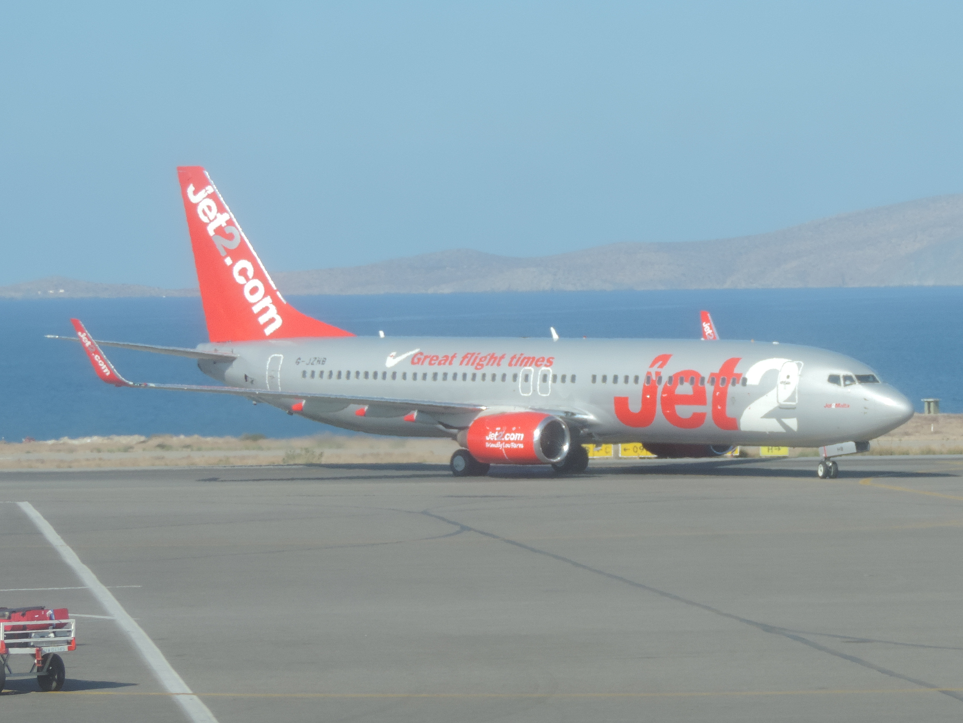 G-JZHB, JET2 Boeing 737-8K5, at Nikos Kazantzakis International Airport, Heraklion airport.